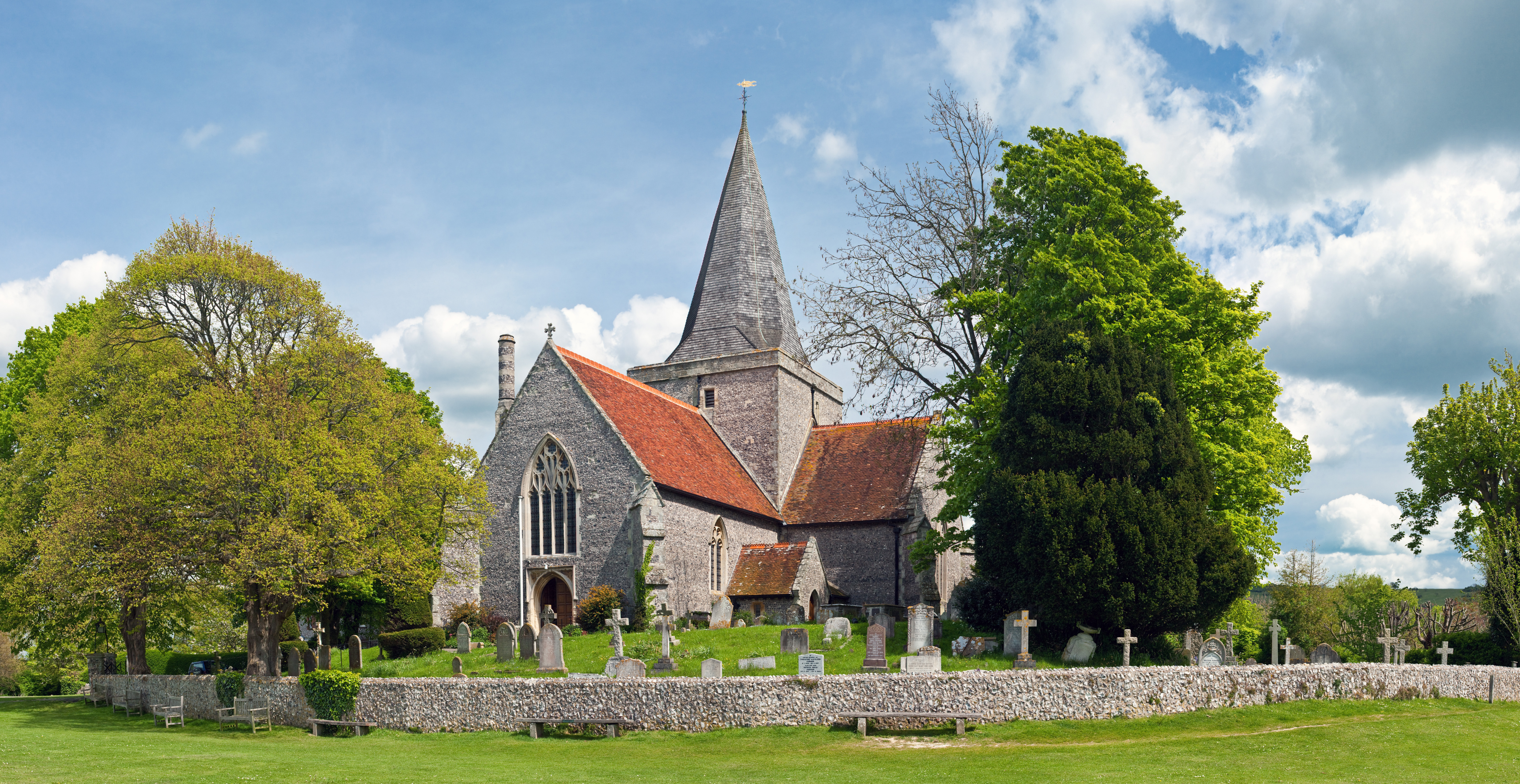 St Andrew's parish church, Alfriston, East Sussex, seen from the southwest. 3 by 5 segment stitched panoramic image taken by myself with a Canon 5D and 70-200mm f/2.8L lens at 70mm.